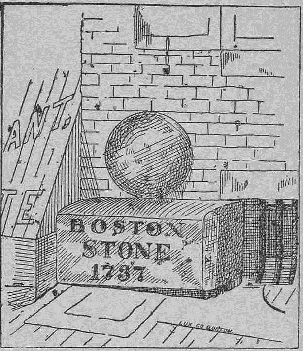 Line drawing of the Boston Stone, cropped from an 1860 broadside